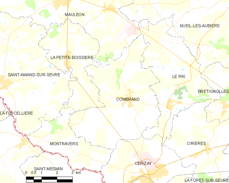 Map of French municipality Combrand